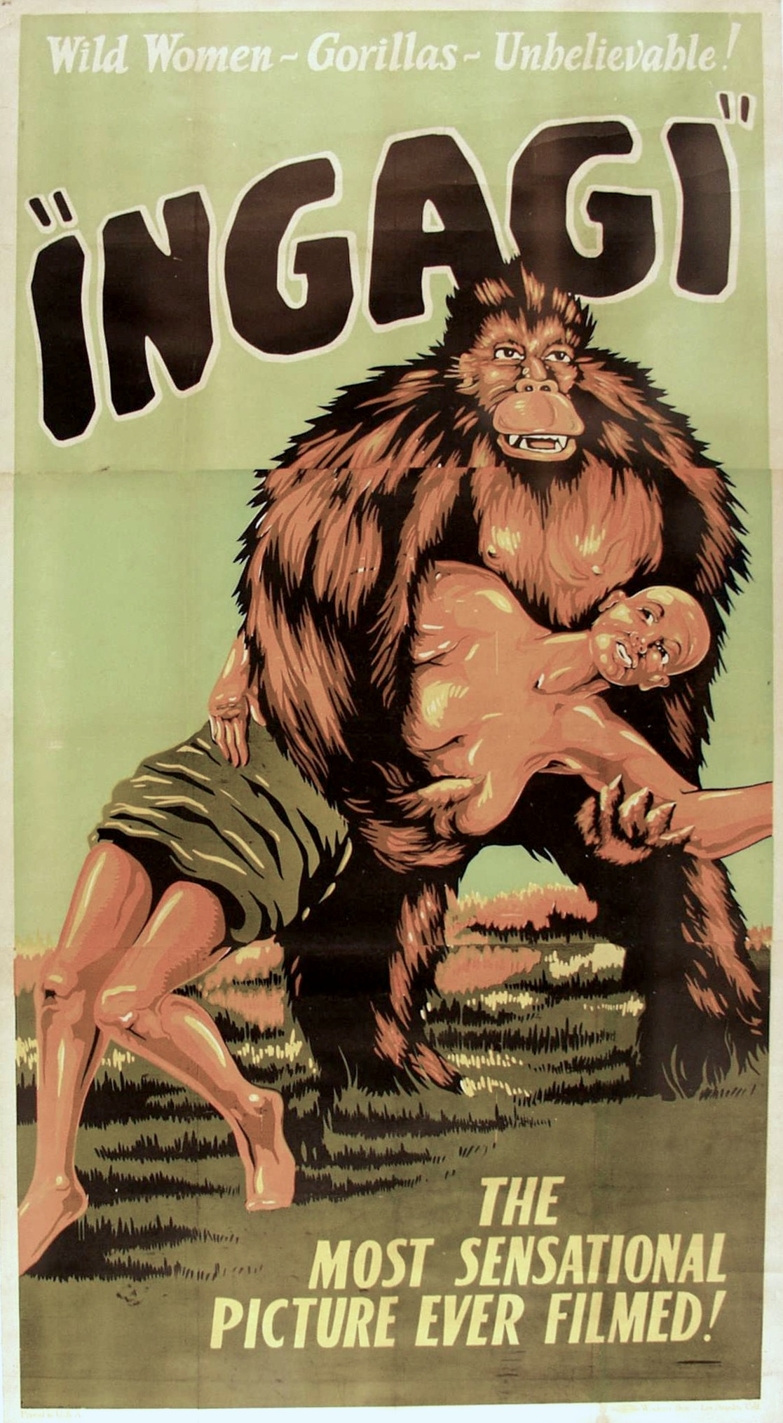 Ingagi is a 1930 Pre-Code exploitation film. This is a poster for the film.